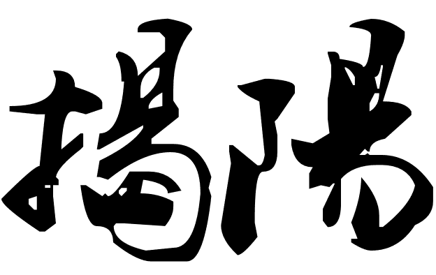 Jieyang in Chinese